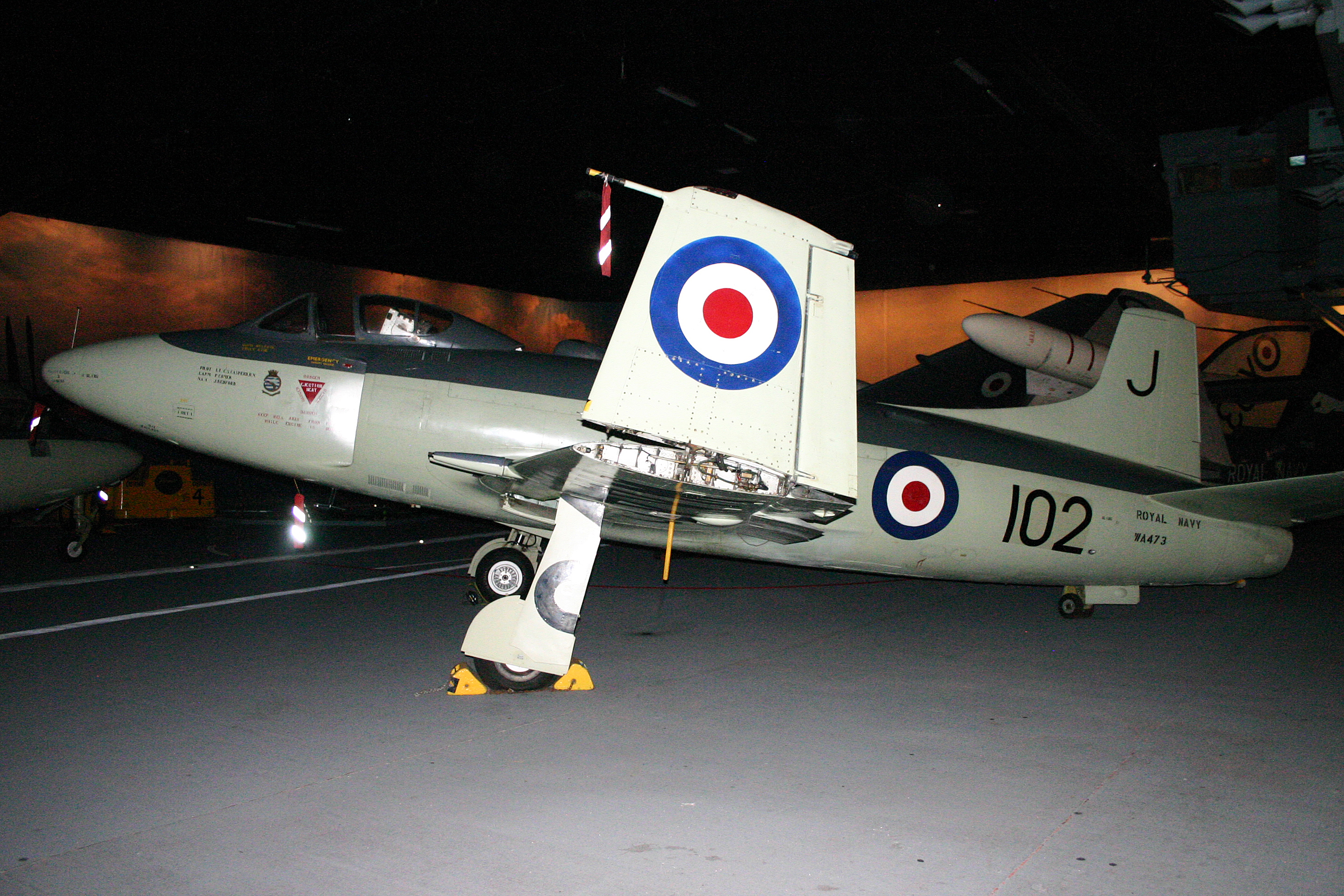 In 800sqn markings. Sole surviving example. Displayed in 'Carrier' exhibition. FAA Museum Yeovilton. 15-6-2011